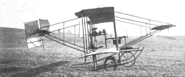 Side view of Bland Mayfly, 1910